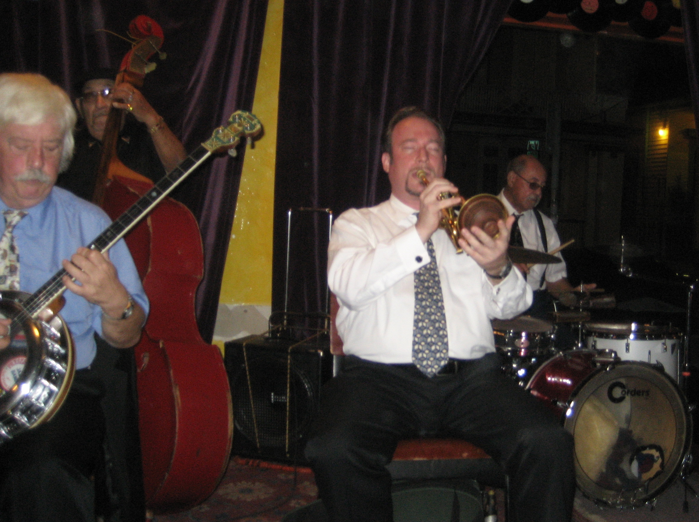 New Orleans: Jazz band at Cafe Brasil. Jon-Eric Kellso plays cornet with plunger mute.